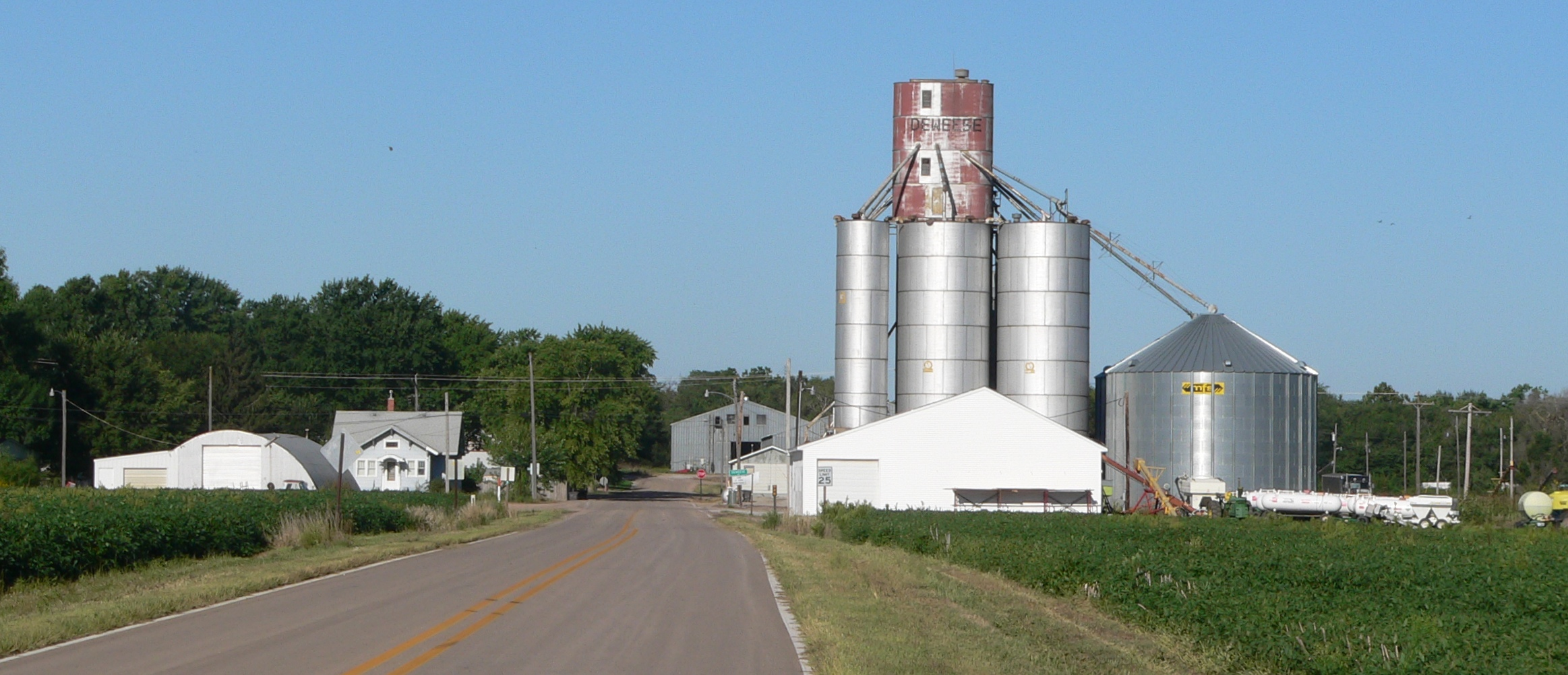 Deweese, Nebraska, seen from the east.